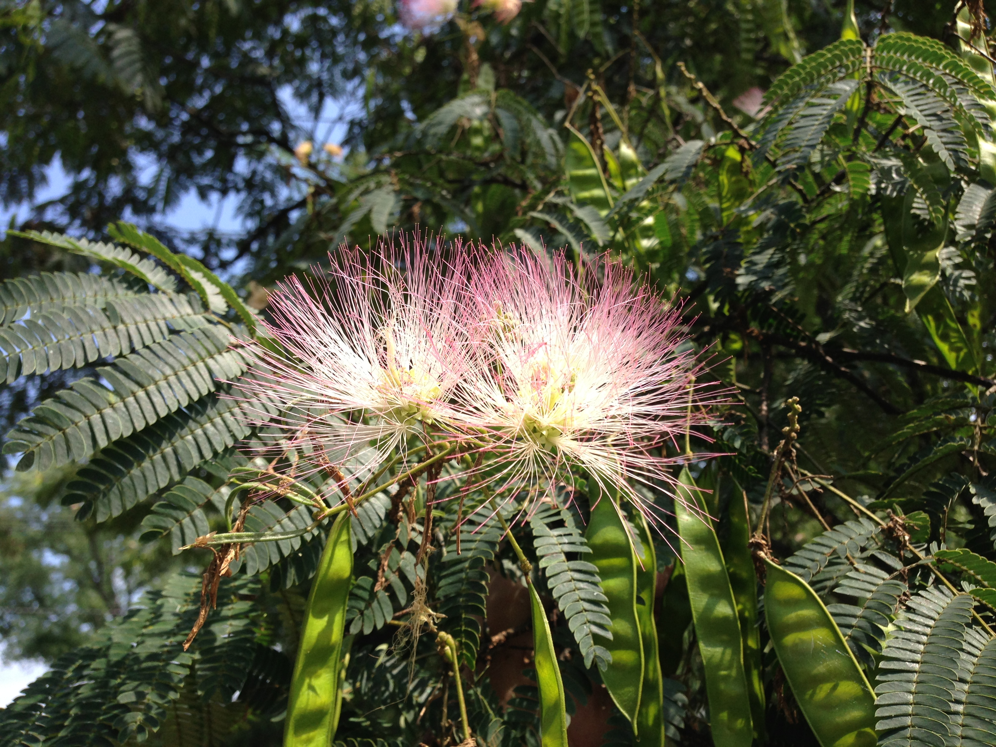 Closeup of Albizia julibrissin foliage, flowers and immature fruits in Ewing, New Jersey on August 26th 2013